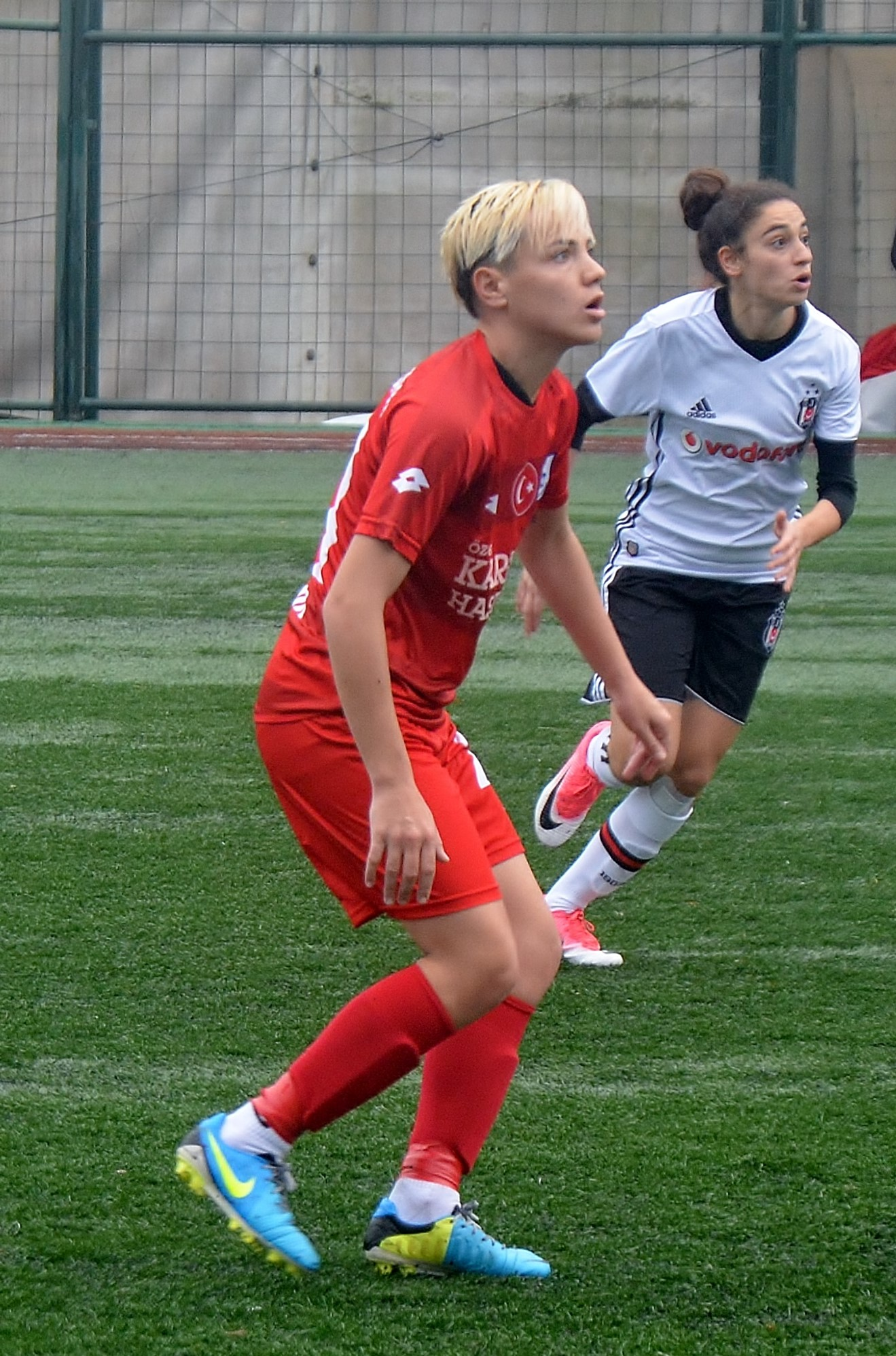 Gülbin Hız playing for Konak Belediyespor against Beşiktaş J.K. in the 2017-18 season's away match.